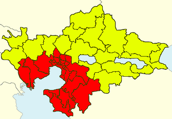 Thessaloniki Metropolitan Area in Greece since the 1990ies. Political Map.